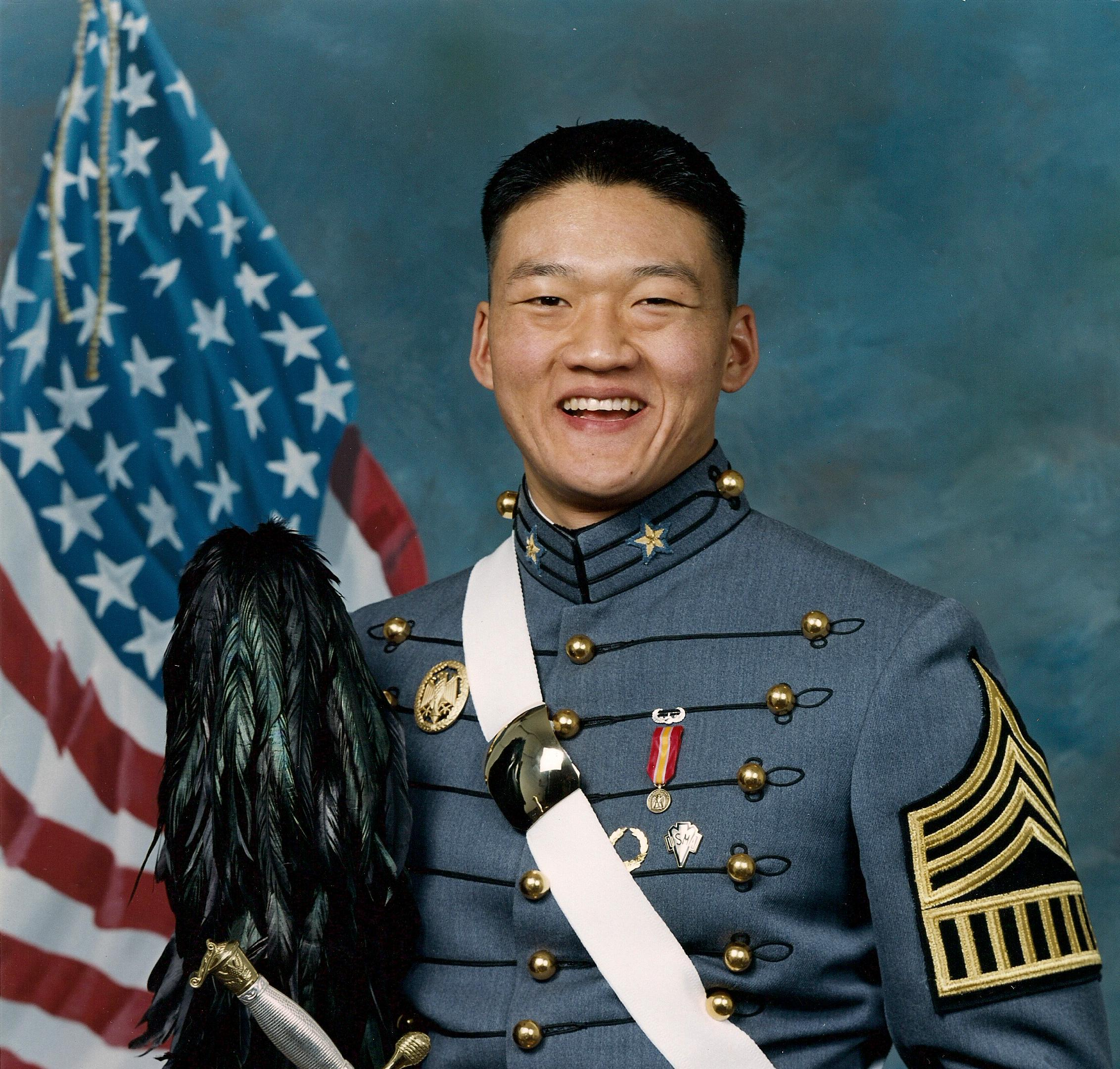 Army Lieutenant Daniel "Dan" Choi, West Point graduation portrait taken in 2003. Cadet Choi wearing the Academy Full Dress uniform with West Point Saber and parade hat.